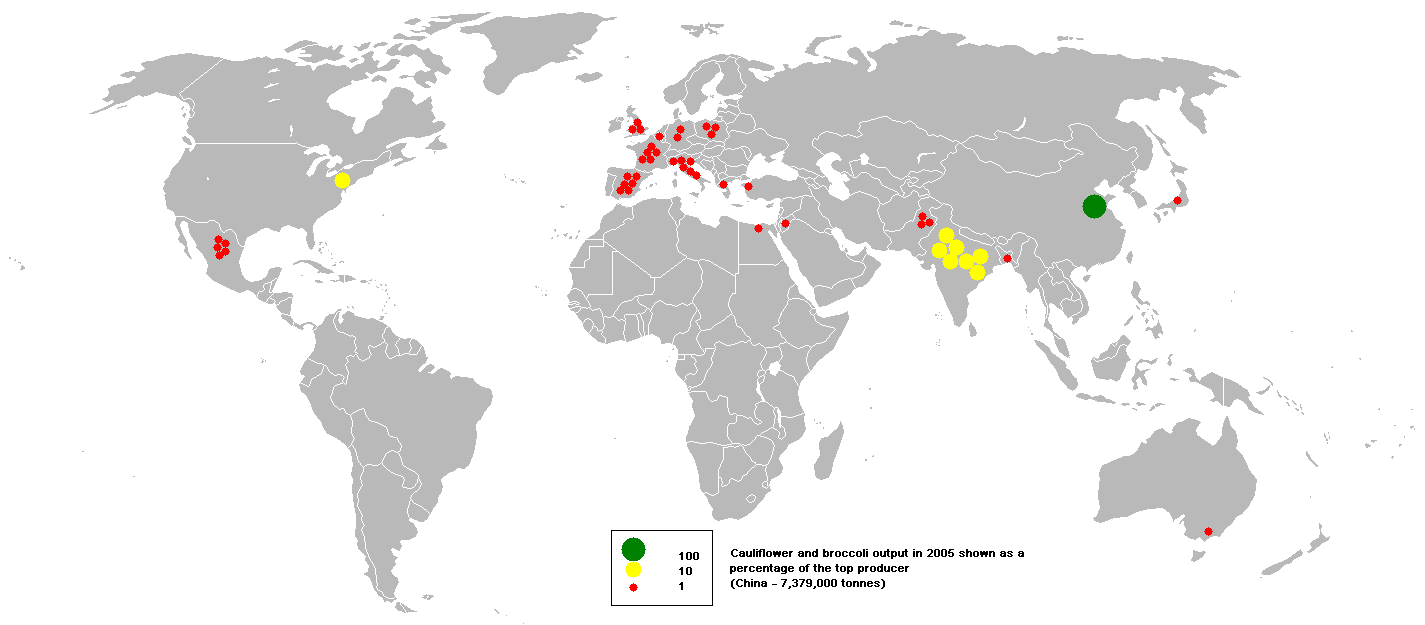 This bubble map shows the global distribution of cauliflower and broccoli output in 2005 as a percentage of the top producer (China - 7,379,000 tonnes). For example seven yellow circles in India means Indian output is 70% of the top producer China. This map is consistent with incomplete set of data too as long as the top producer is known. It resolves the accessibility issues faced by colour-coded maps that may not be properly rendered in old computer screens. Data was extracted on 9th June 2007 from Based on :Image:BlankMap-World.png